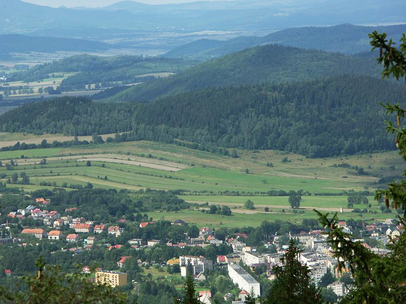 Panorama of Lądek-Zdrój from top of Trojak (Góry Złote, Sudeten, Poland)